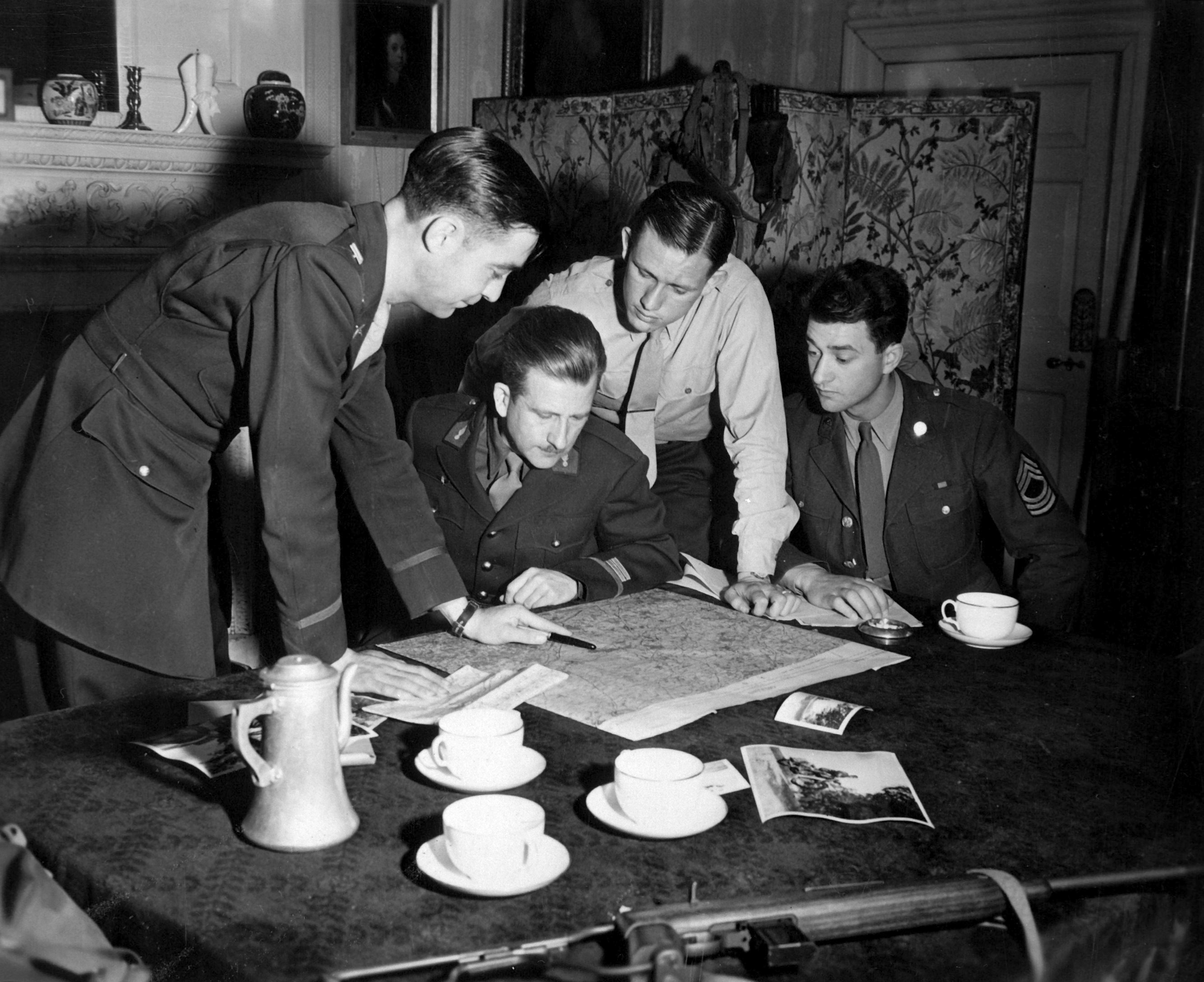 Jedburghs get instructions from Briefing Officer in London flat. NARA FILE #: 226-FPL-MH-109 WAR & CONFLICT BOOK #: 1037. ID: HD-SN-99-02696